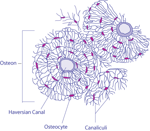 Diagram depicting transverse section of the fibula (decalcified)at a magnification of x250.